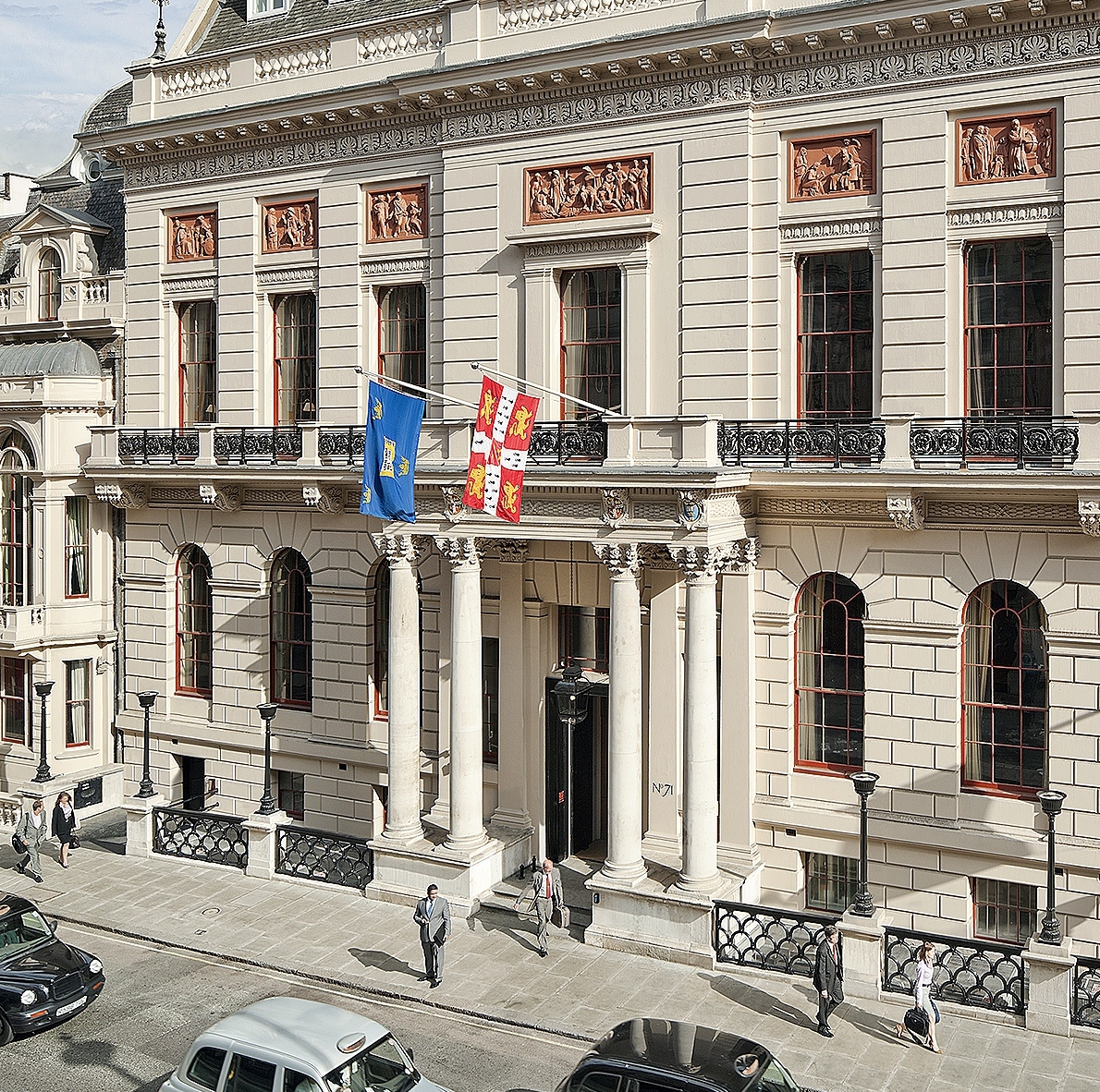 club house from other angle with flags